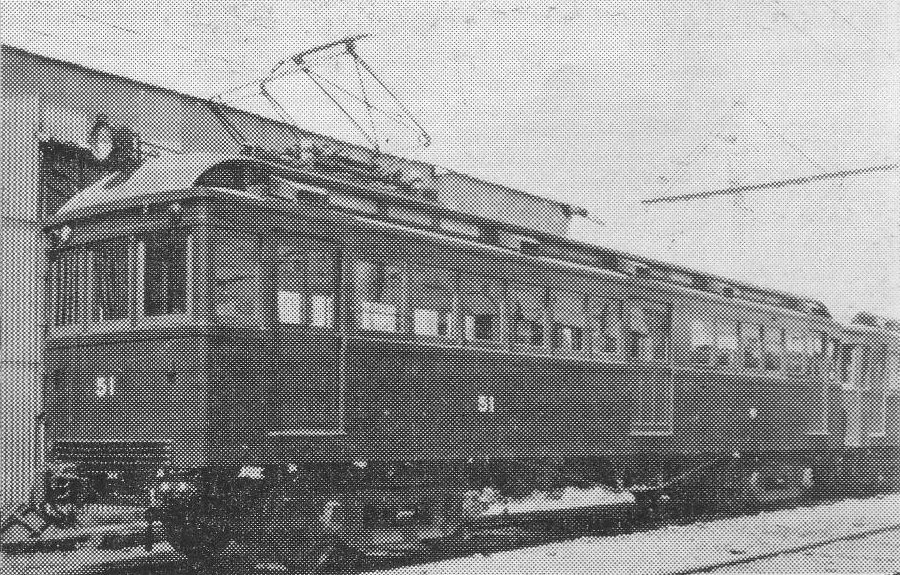 Hankyu 51.